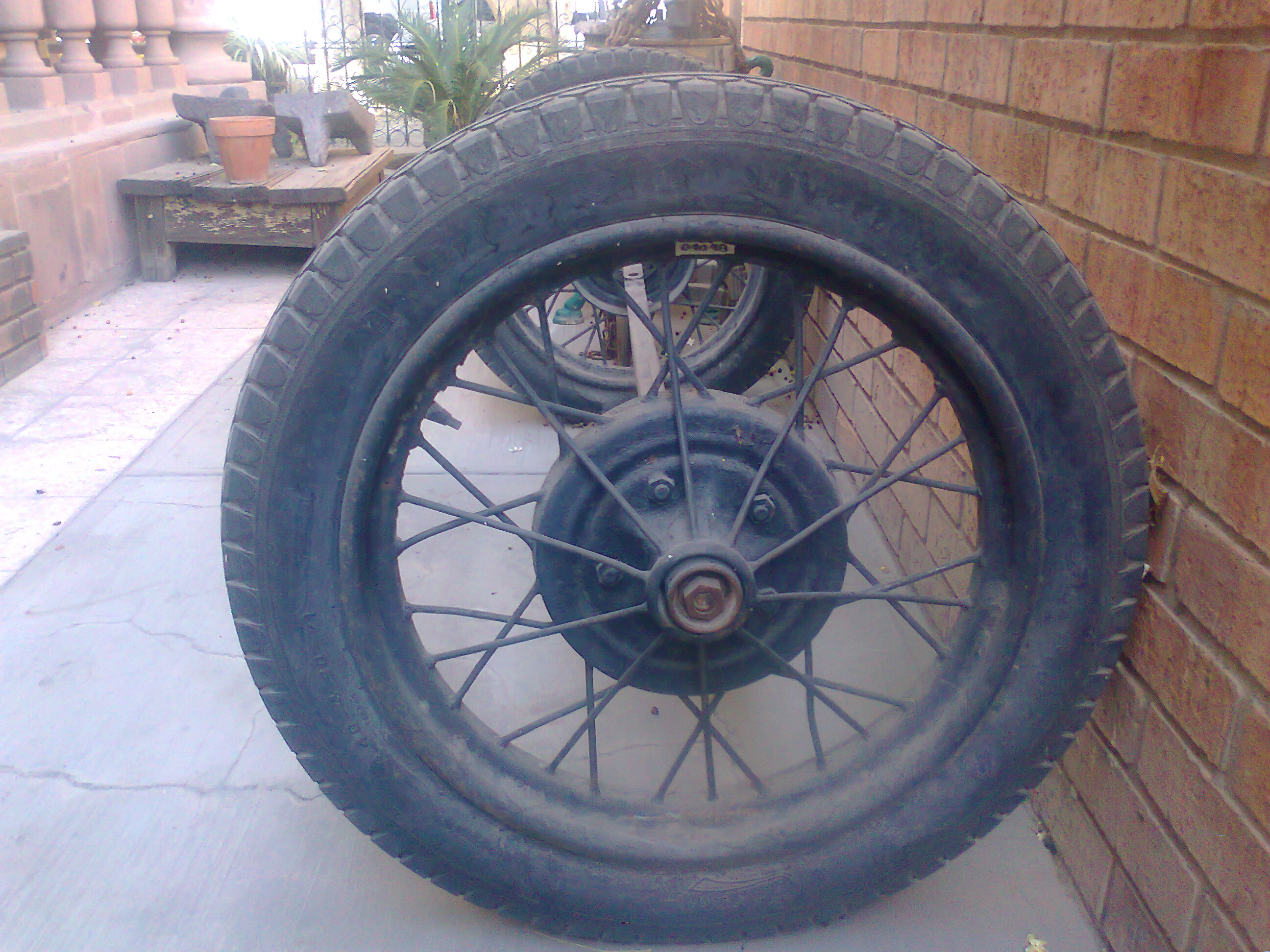 An antique Goodrich-Silvertown tire Made In Mexico by Euzkadi.